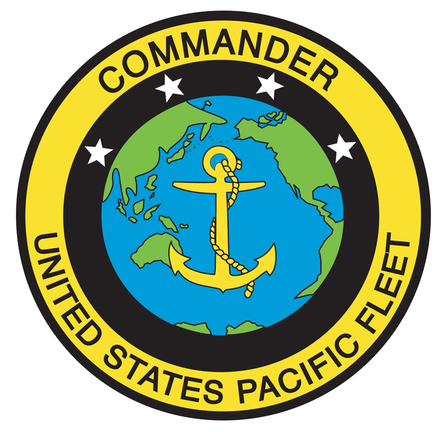 Logo of the U.S. Navy's Pacific Fleet